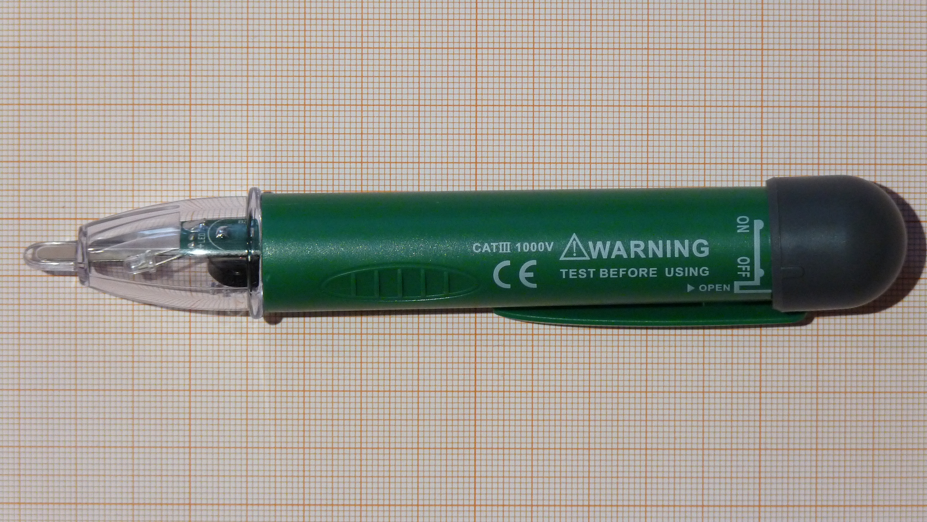 Wireless voltage probe